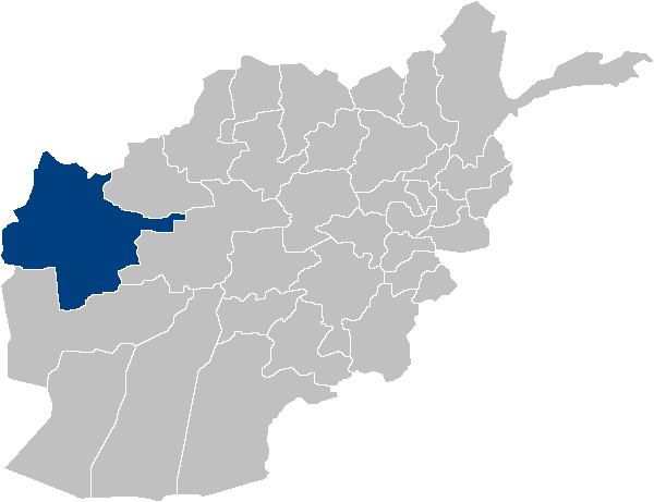 Location map for Herat Province in Afghanistan. Original map source: Image:Afghanistan_provinces_blank.png